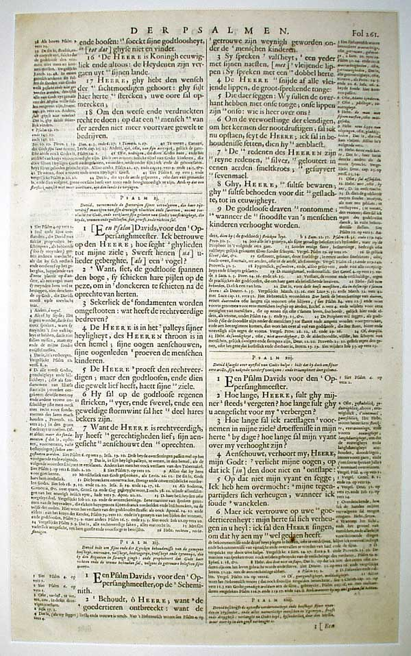 1663 A. D., Leyden. States – General Bible. Printer, Johan Elzevir.